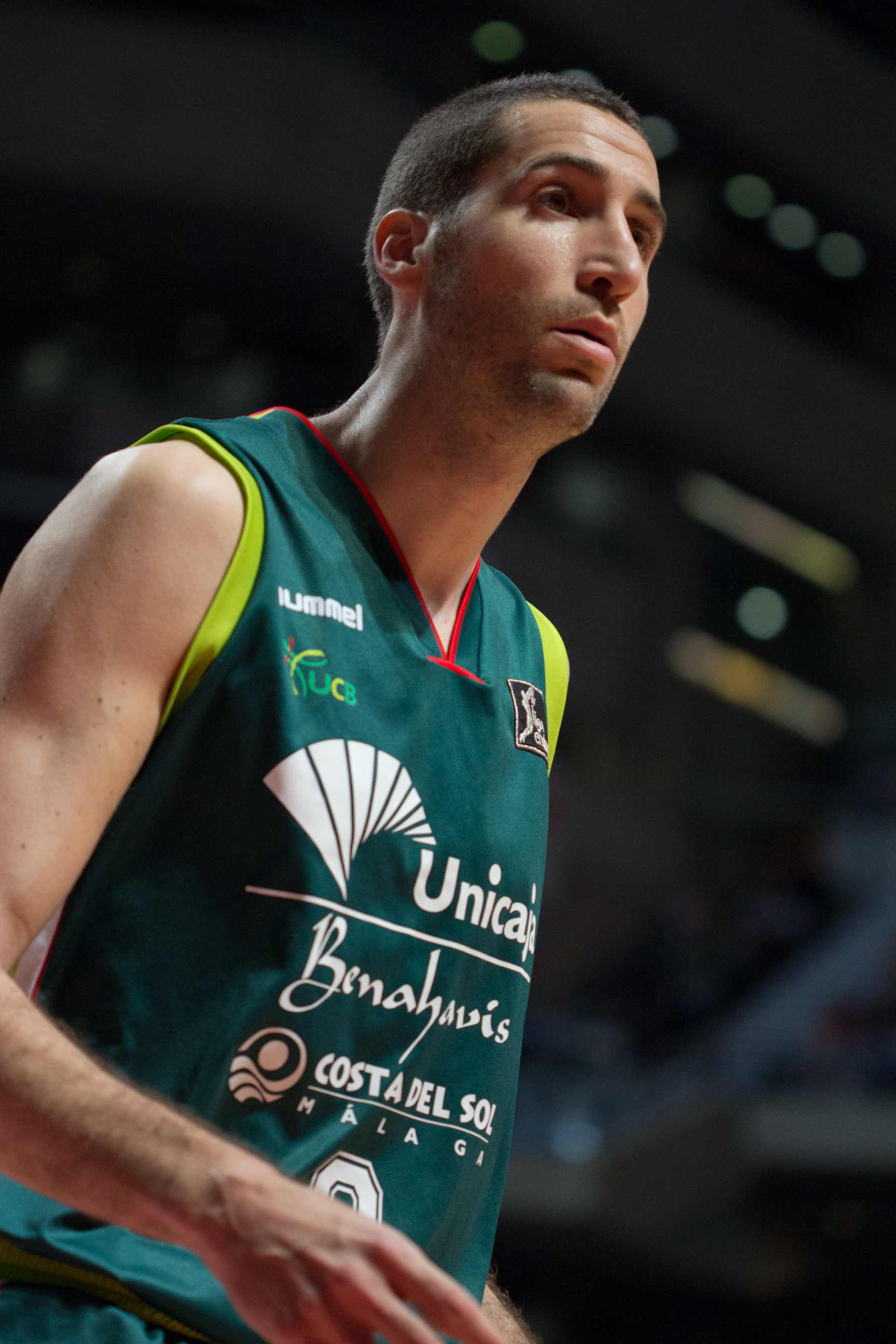 Sergi Vidal. Game Estudiantes vs Unicaja Málaga.